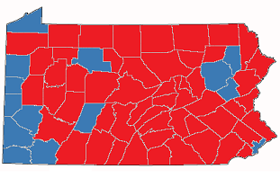 2000 PA Treasurer election results by county. Blue = Knoll, Democrat. Red = Hafer, Republican.